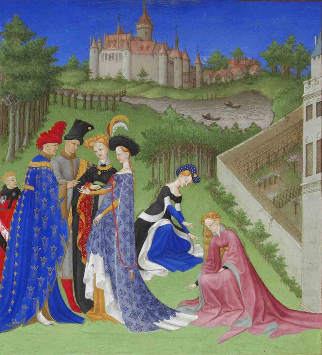 Detail from the month of April in Les Très Riches Heures du duc de Berry'